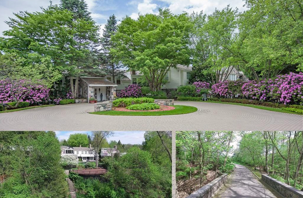 Former Bingham Farms, Michigan, home of David Hermelin (United States ambassador to Norway and Detroit area philanthropist and entrepreneur); built in 1939 by Hugh T. Keyes for Ford President Semon Knudsen.